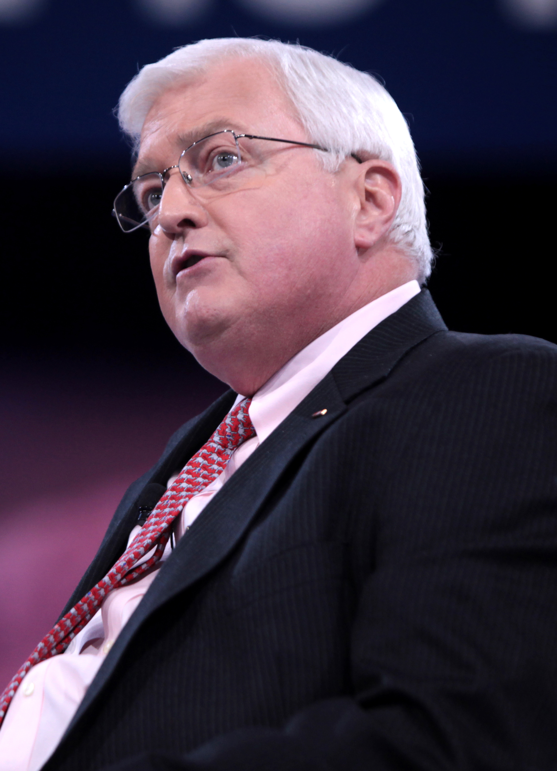 Van Hipp Jr. speaking at CPAC 2016 in National Harbor, Maryland.